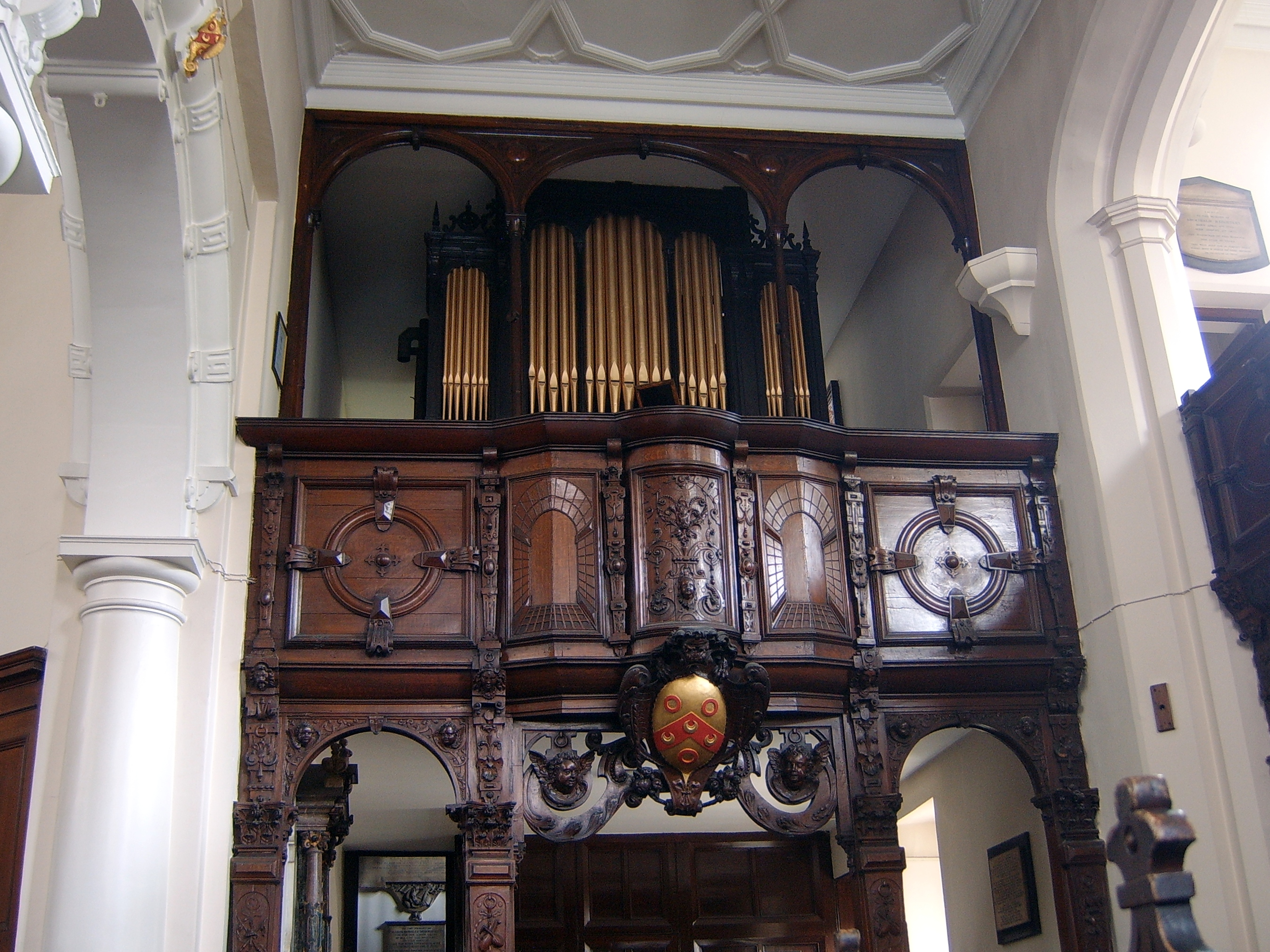 Organ pipes, Chapel of Sutton's Hospital, Charterhouse.